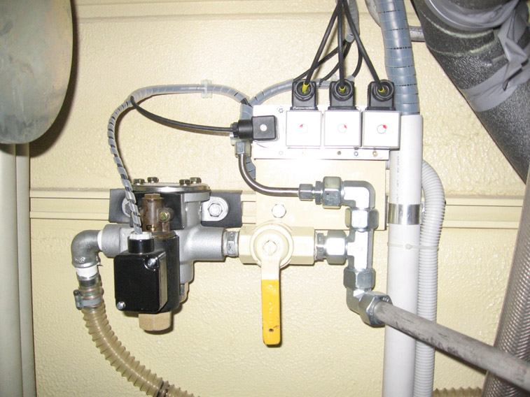 Security valve on the main pipe